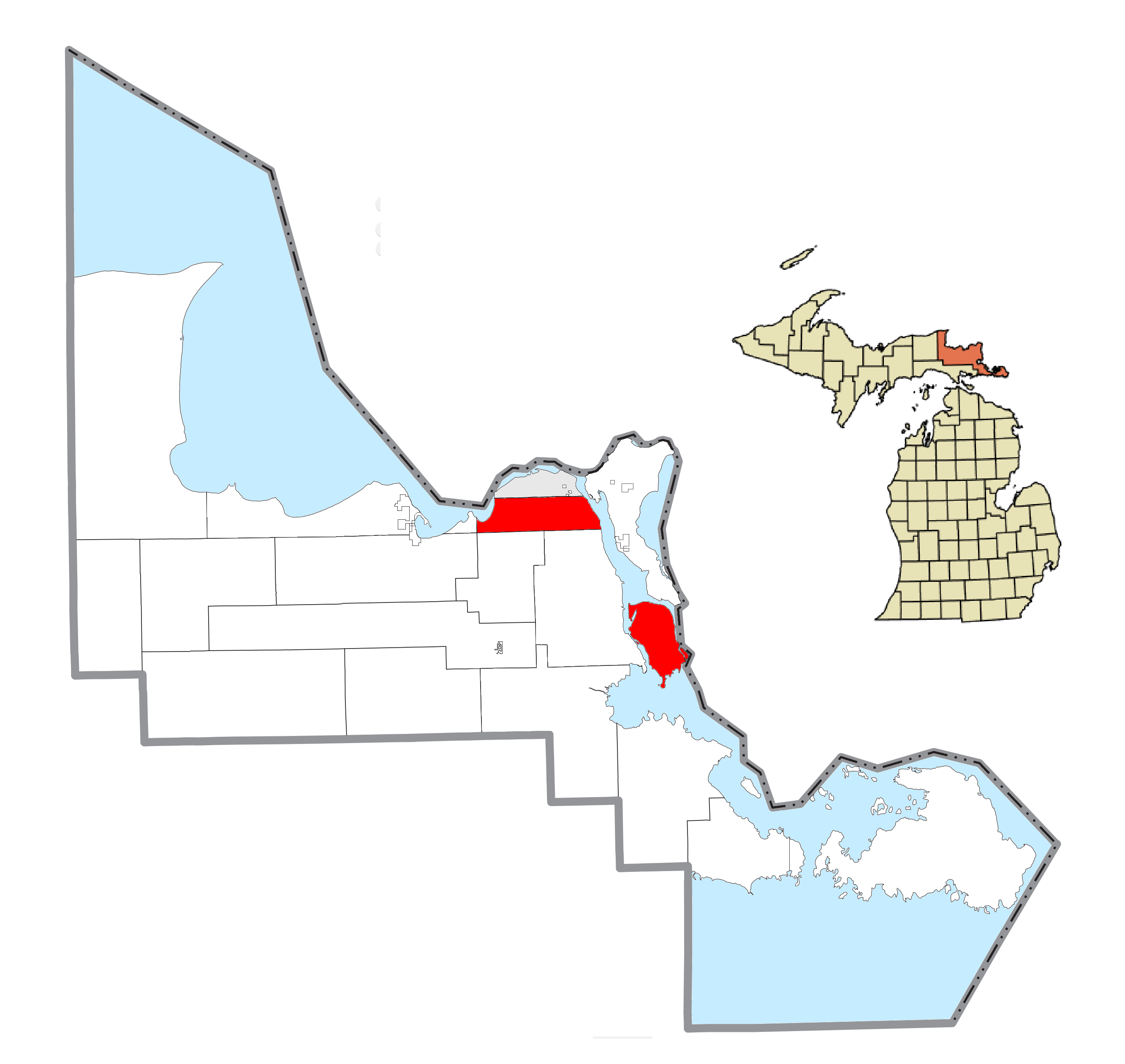 Soo Township, MI